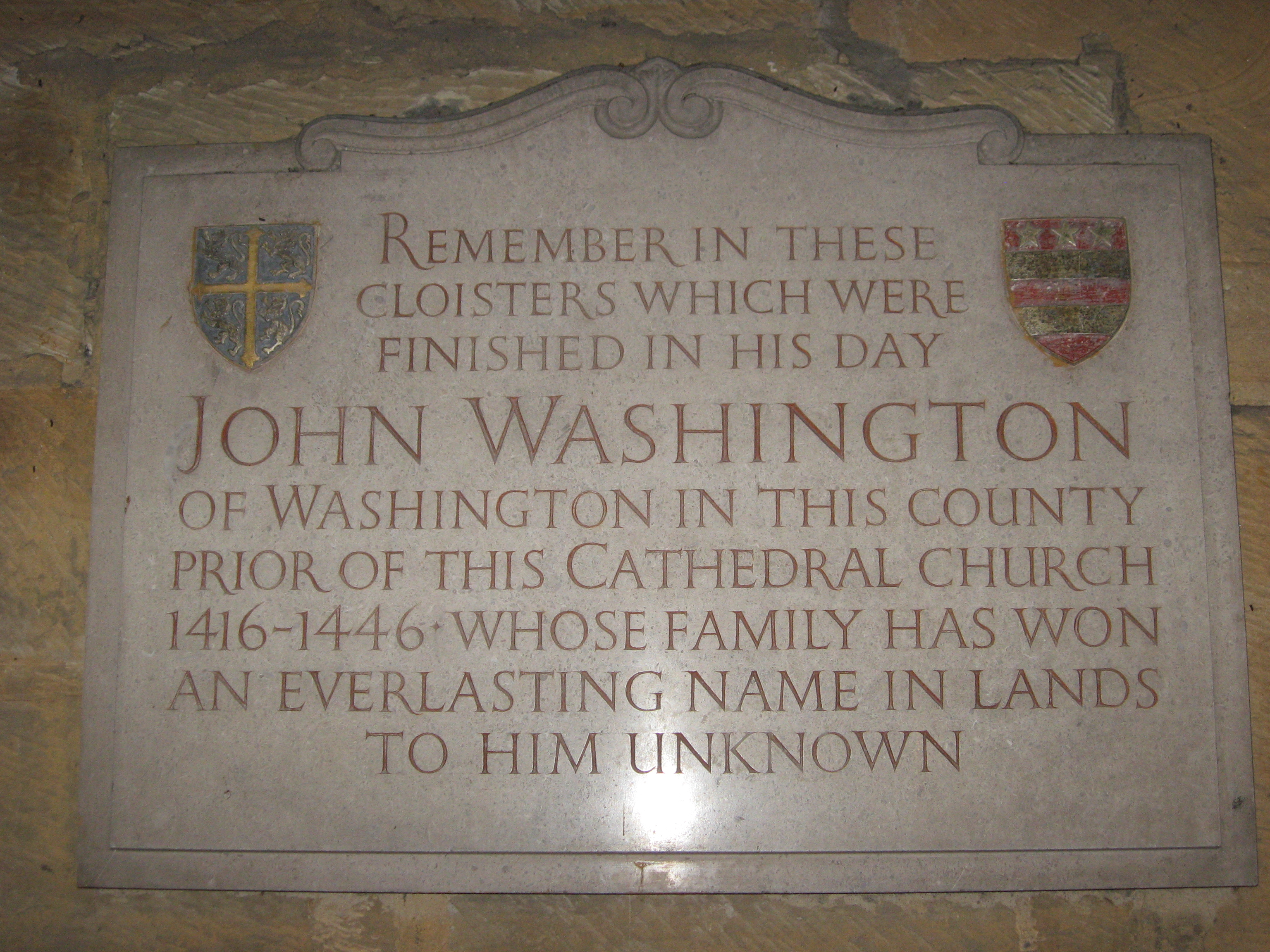 Plaque in Durham Cathedral’s Cloisters for John Washington, erstwhile Prior thereof; ancestor of George Washington, later President of the United States of America.